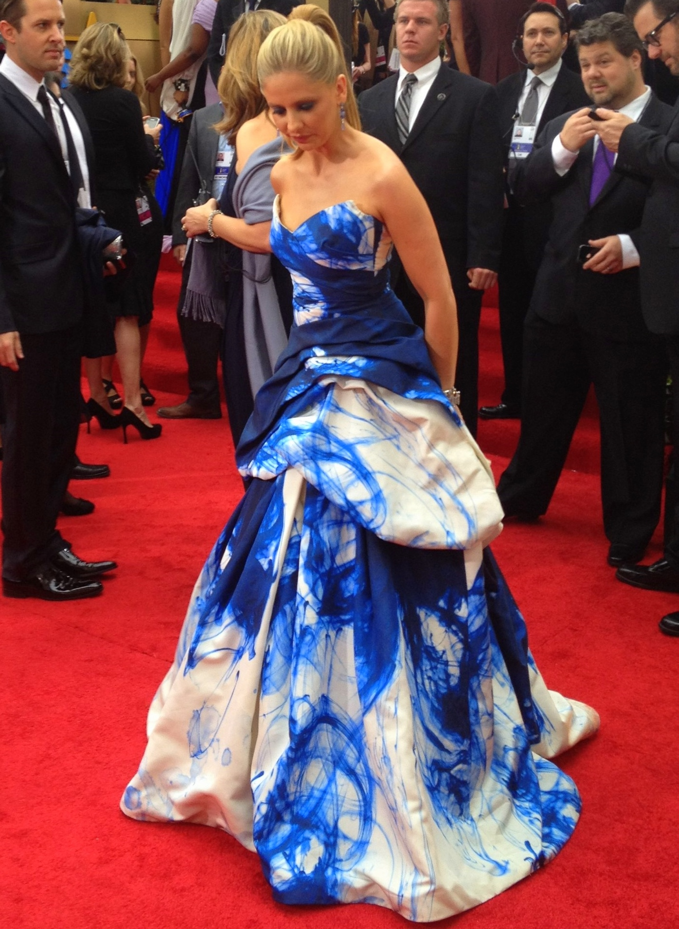 Sarah Michelle Gellar at the 69th Annual Golden Globes Awards 2012.